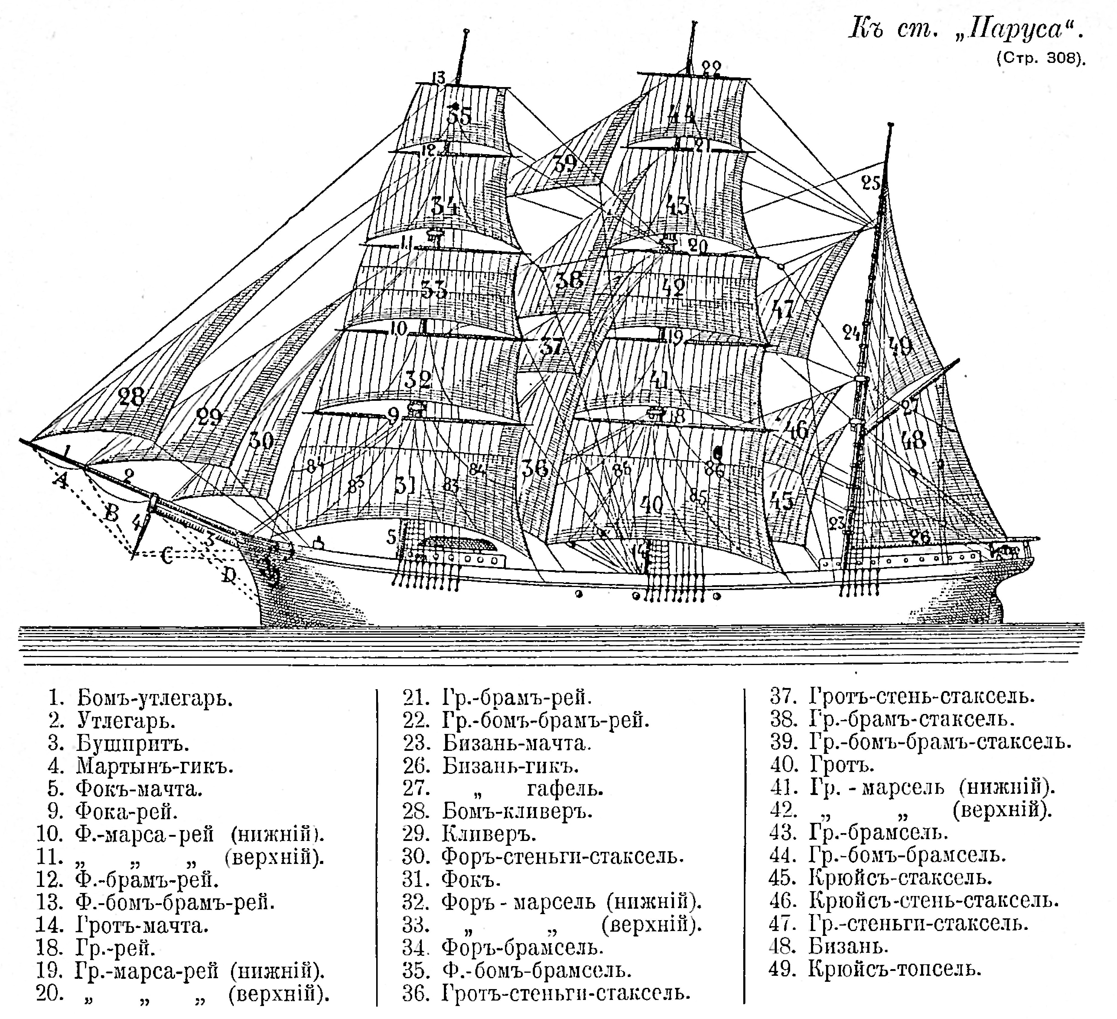 Sails in art